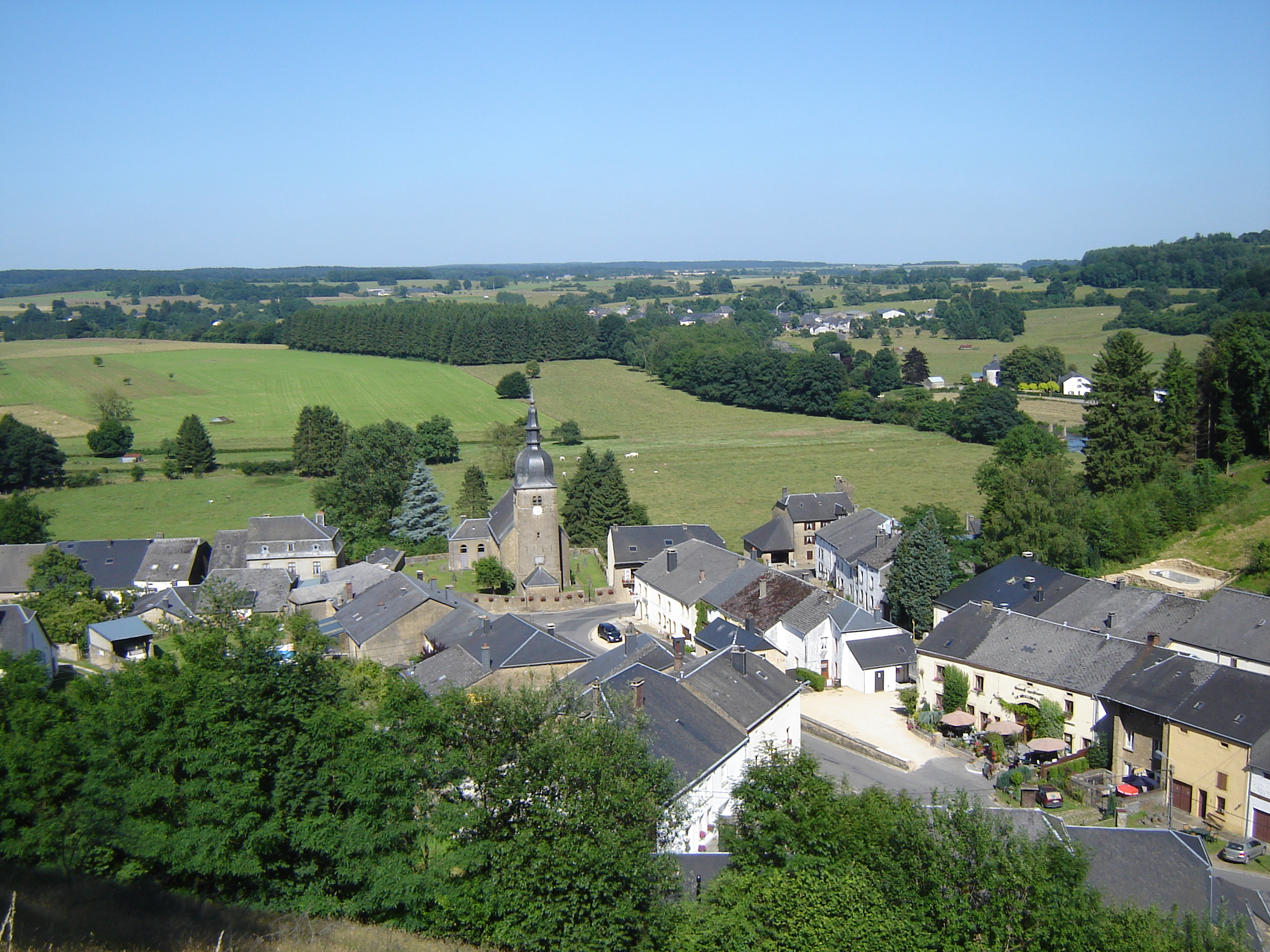 View on Chassepierre. Chassepierre, Florenville, Luxembourg, Belgium